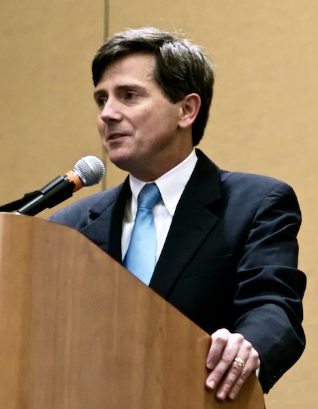 Sean Faircloth speaking at the Atheist Alliance International Convention, Burbank, California, USA